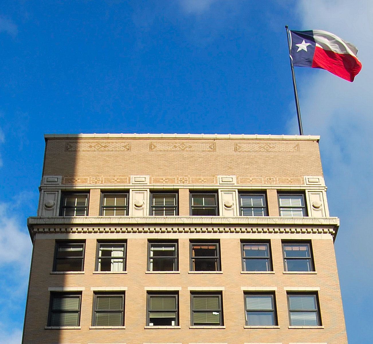 The cornice and upper floor windows are the Scarbrough Building’s only remnants of its original Chicago style. The rest of this building in Austin, Texas was remodeled in an art-deco style in 1931.